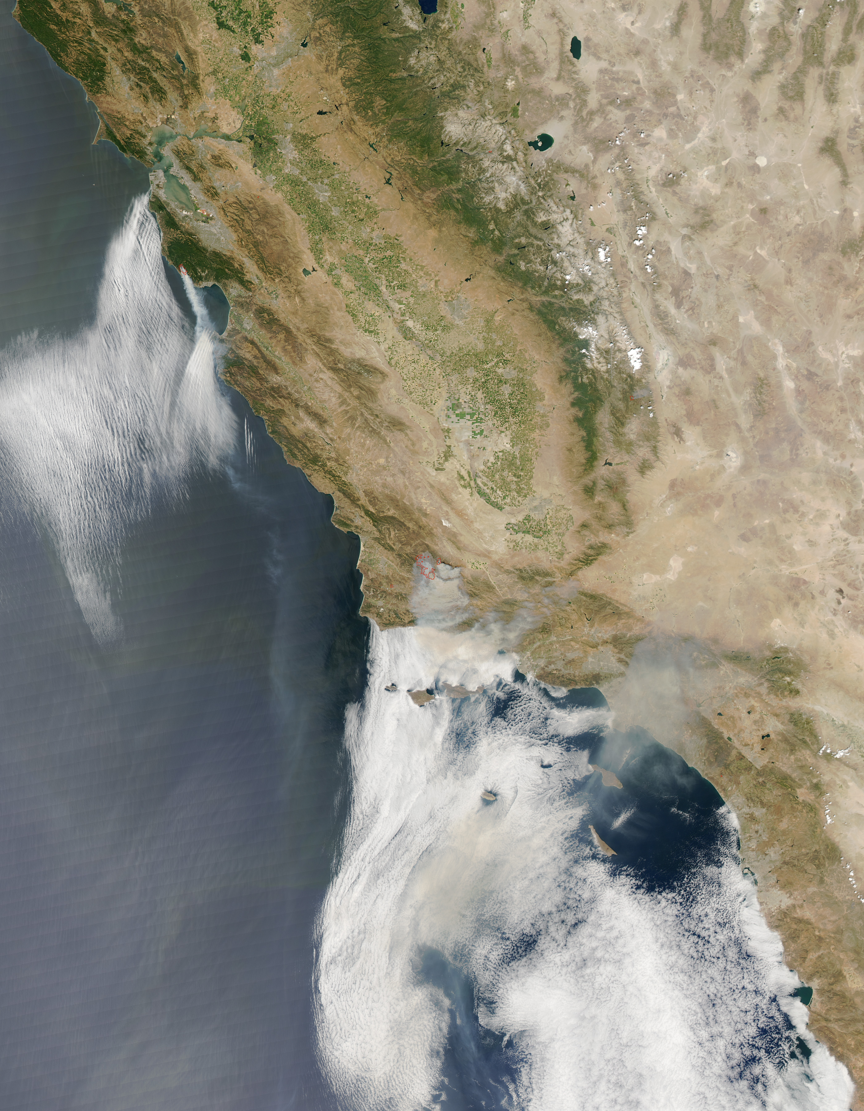 Red outlines mark the locations where the satellite detected active fire. A narrow but dense plume of smoke slices across the mouth of Monterey Bay, stretching past the city of Santa Cruz toward Monterey. The landscape of this part of California is one of redwoods and fir trees, and it appears lushly green in this image. But mixed with these forests are tracts of chaparral (landscapes dominated by fire-adapted, drought-tolerant shrubs and grasses) and large stands of highly flammable knobcone pine.